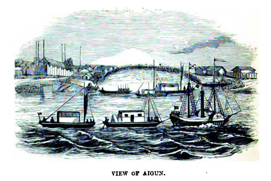 View of the Chinese city of Aigun (now Aihui), and the boats of Muraviev's Amur expedition in 1854